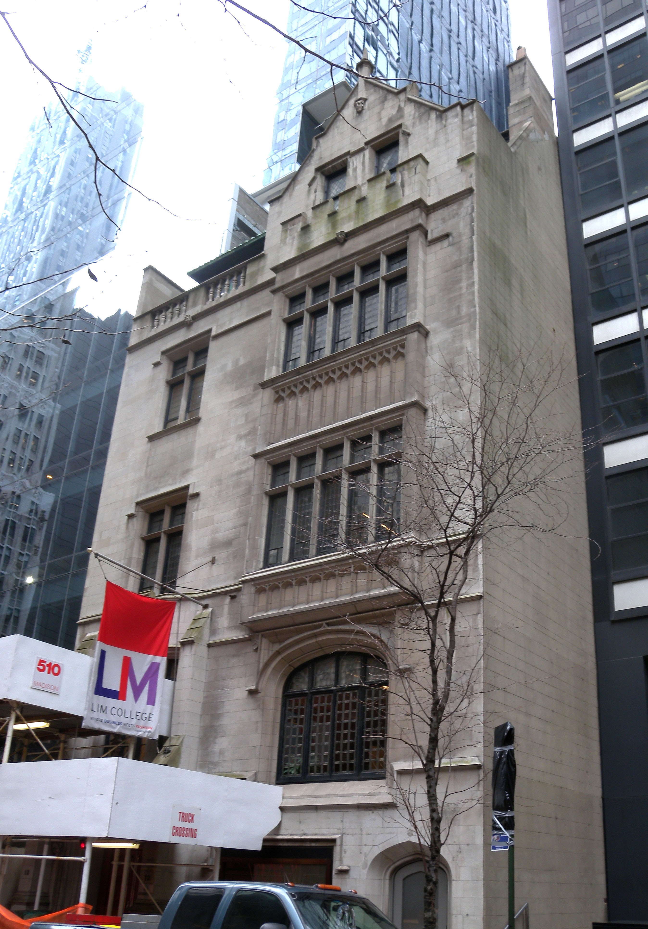 Looking south across 53d St at Laboratory Institute of Merchandising.